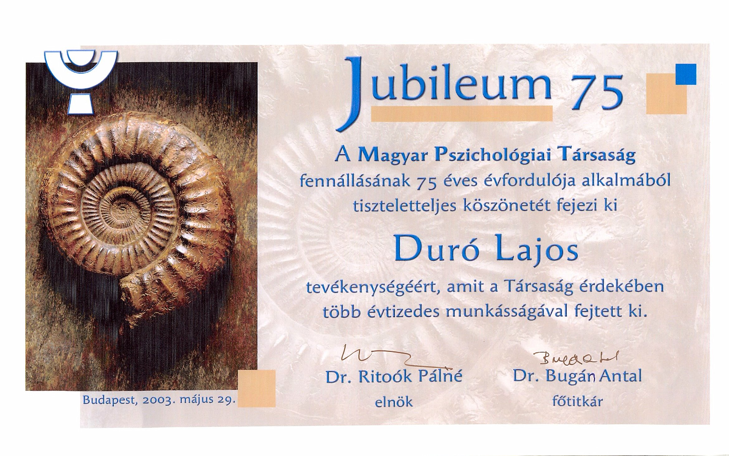 Memorial leaf of Lajos Duró from Hungarian Psychological Association (2003)